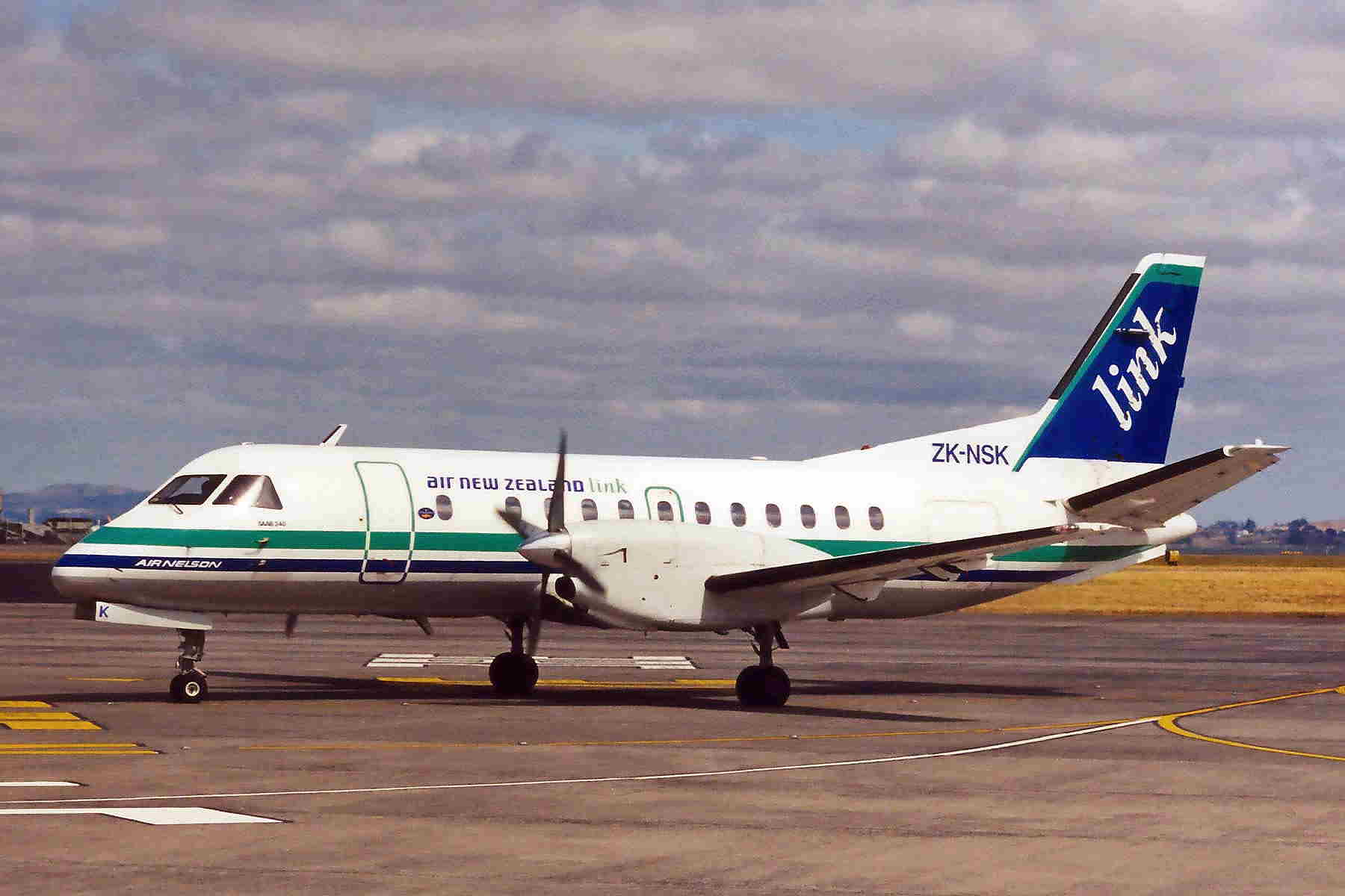 Air New Zealand Link, operated by Air Nelson.